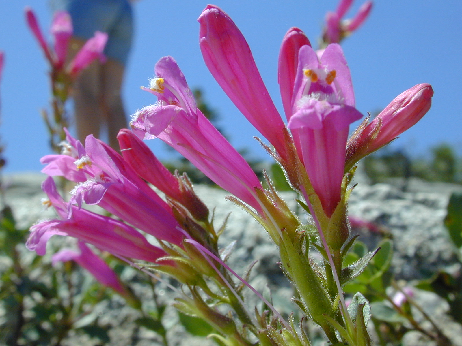 Mountain Pride, Penstemon newberryi. Growing in cracks in the rock on Sentinel Dome. Yosemite National Park. (Jepson)